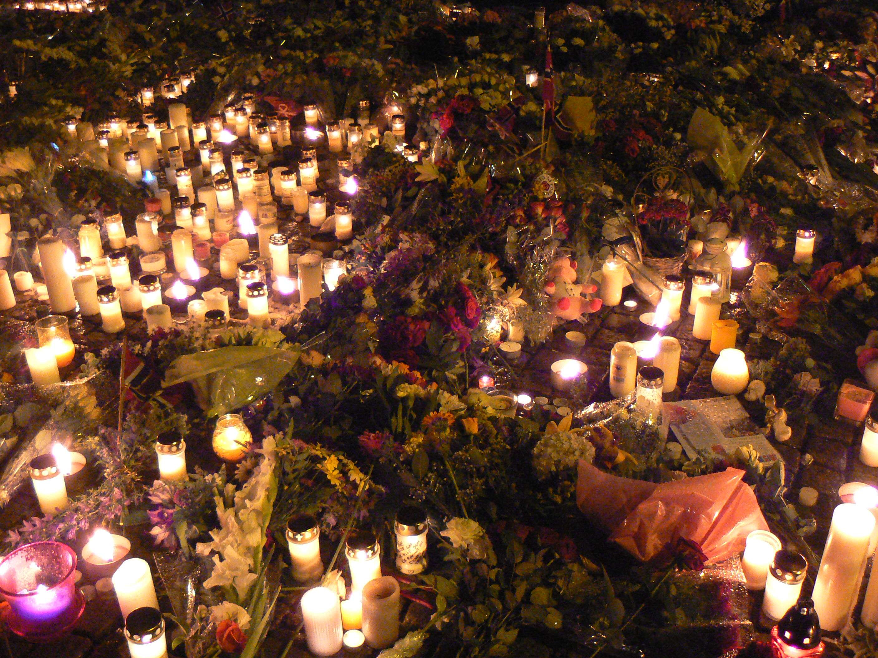 Flowers and candles outside of the Oslo Cathedral, July 23 2011.